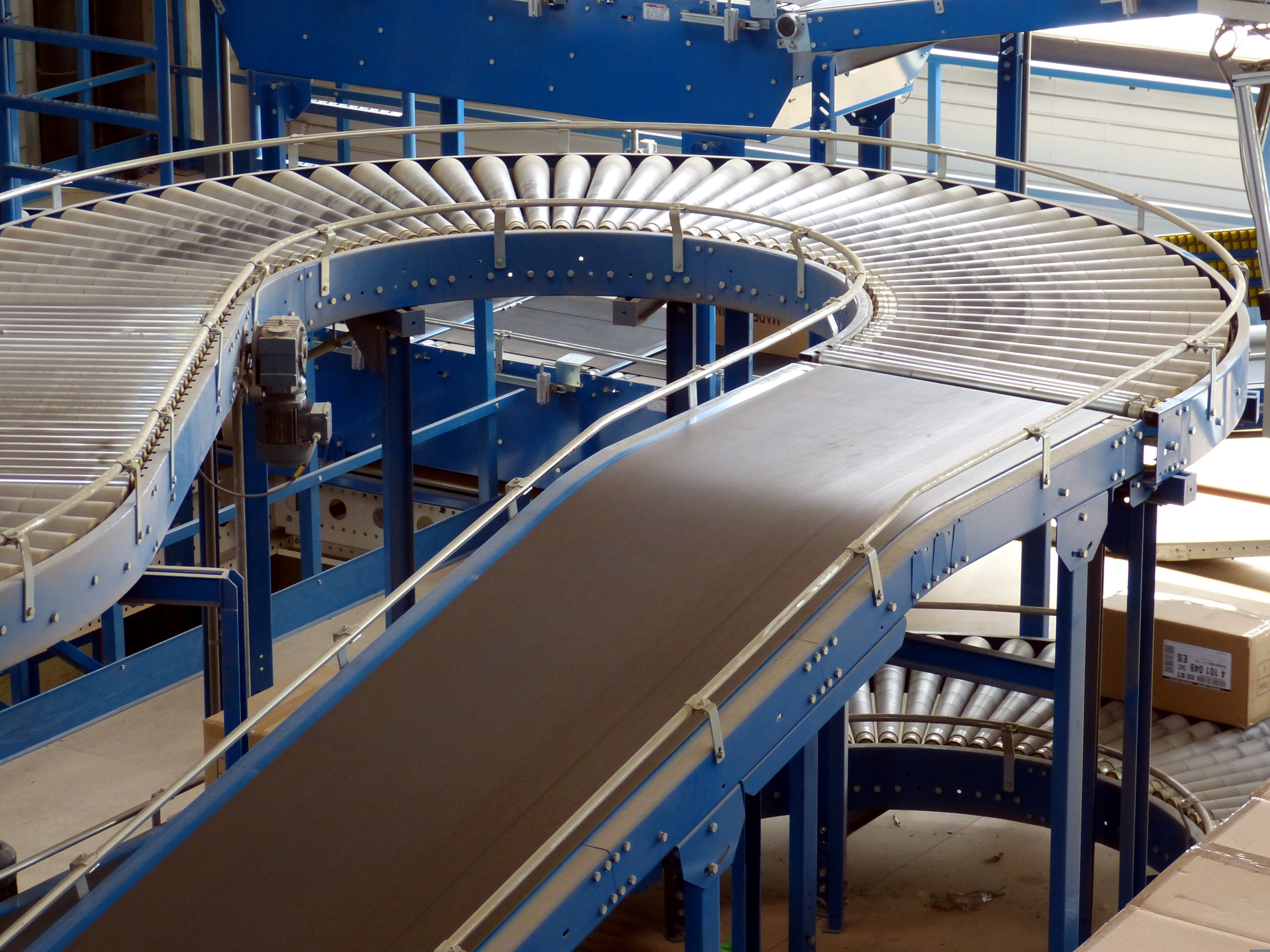 Conveyor system in a factory